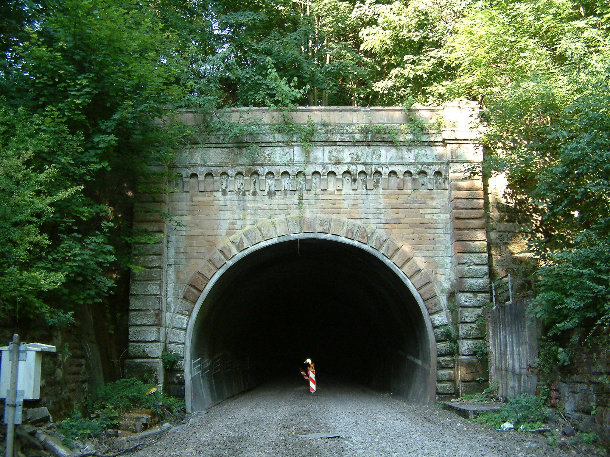 Weinsberg railroad tunnel between Heilbronn and Weinsberg, southern portal (Heilbronn) when the railway was upgraded for Stadtbahn (tram-train) operation